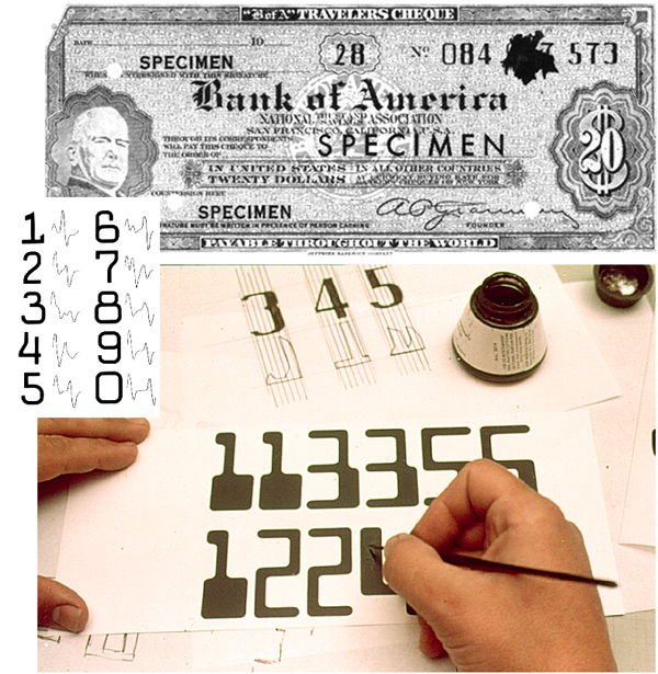 SRI’s Magnetic Ink Character Recognition (MICR), developed from 1950-1955